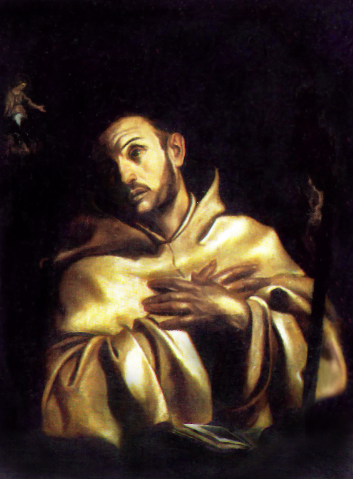 Portrait of Jean de La Barrière from San Bernardo alle terme, Rome.